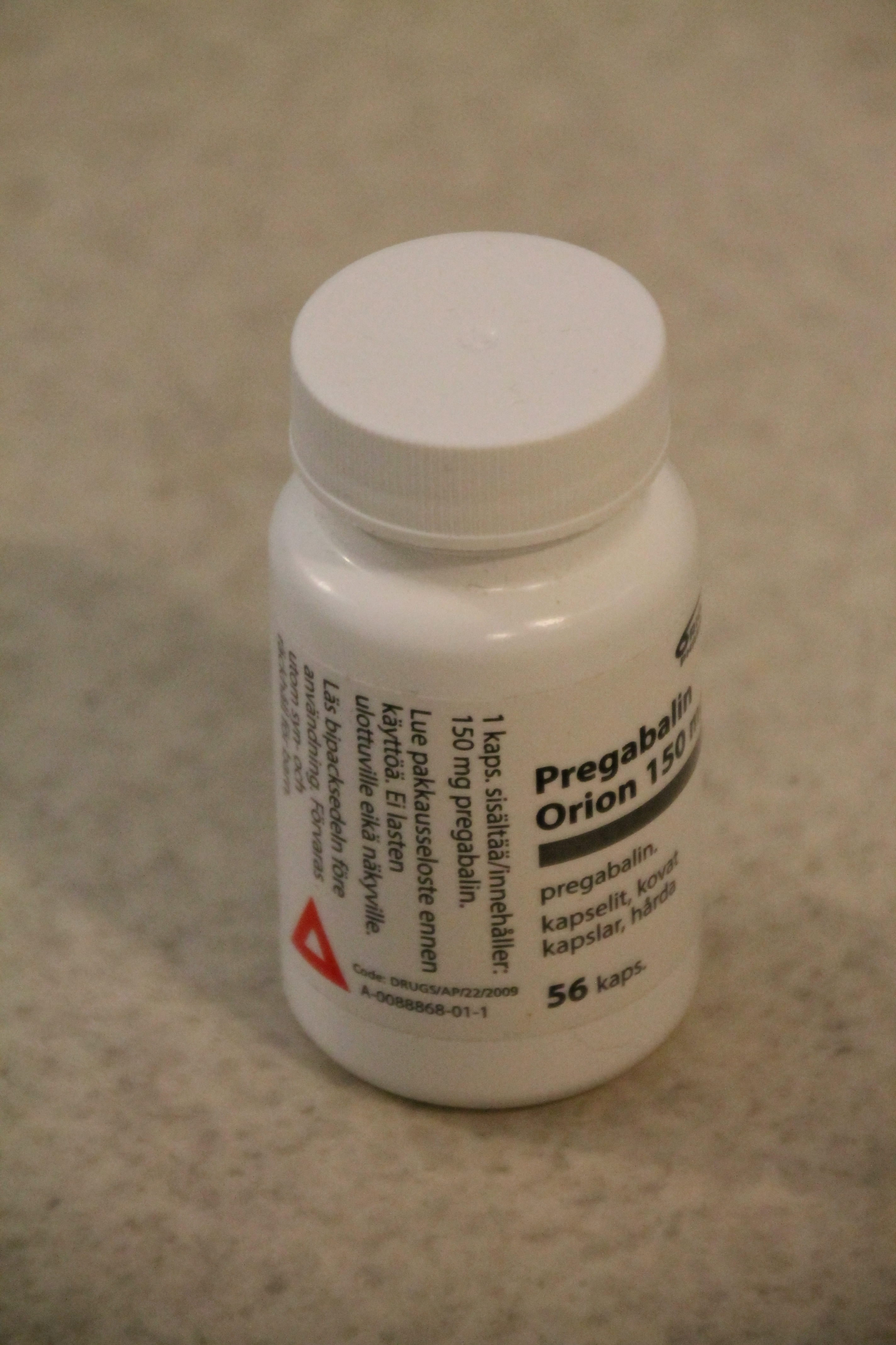 Finnish pregabalin capsule can. Trade mark Orion. Can contains 56 150mg pregabalin capsules.